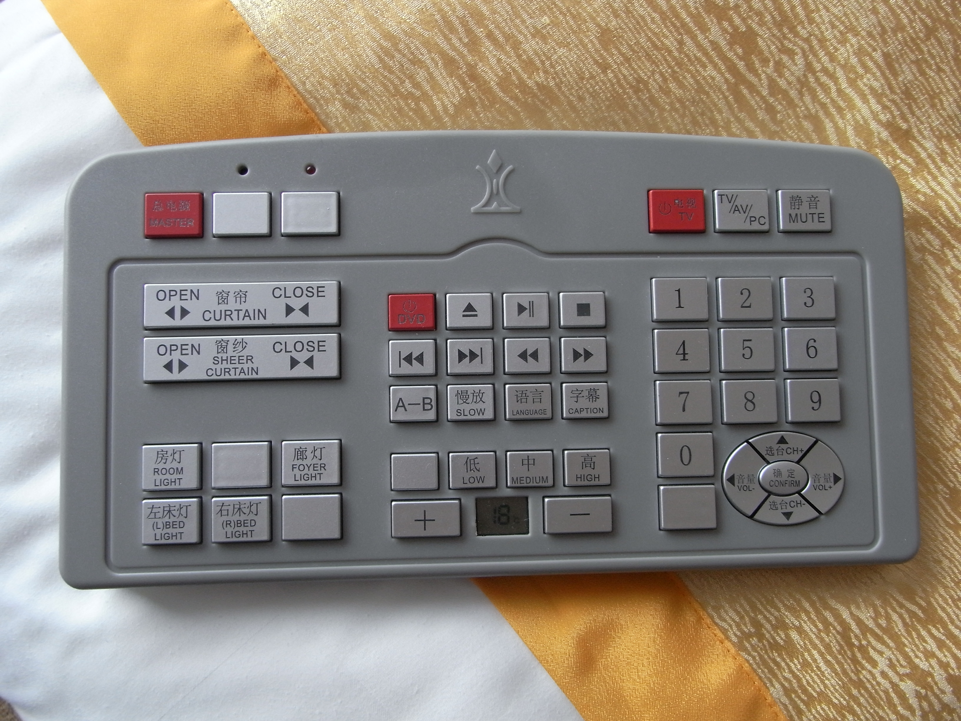 廣東 東莞太子酒店 房間